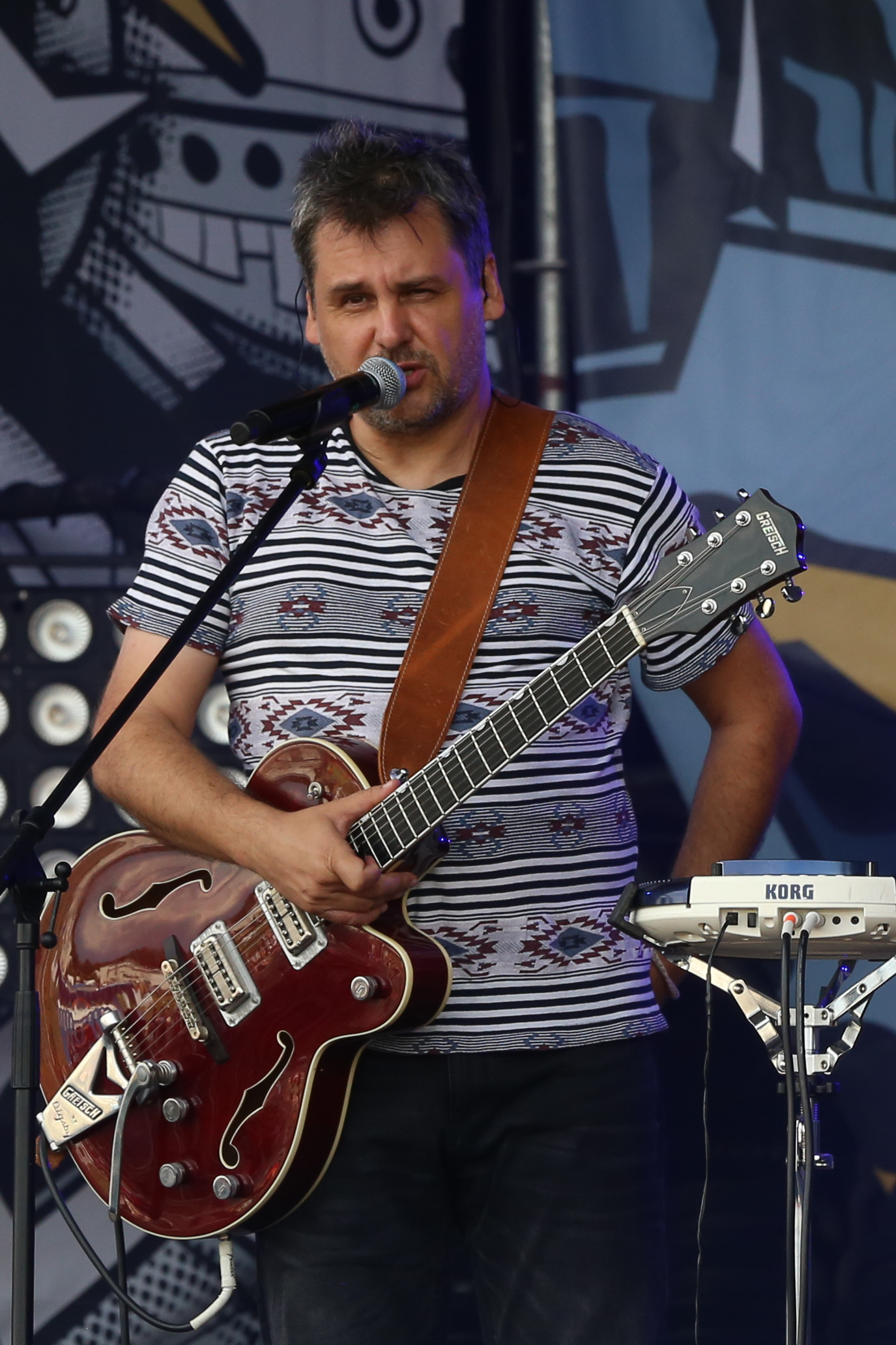 Pol'and'Rock Festival in 2019.